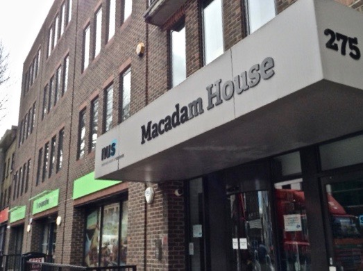 Macadam House, National Union of Students (NUS) Headquarters, 275 Gray's Inn Rd. Kings Cross, London WC1X 8QB namede after the founder President of the NUS Ivison Macadam